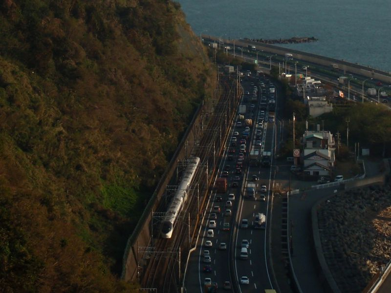 JR Central 371 series EMU on Rapid service train "Home Liner Nomazu No.2" in Tokaido Main Line.